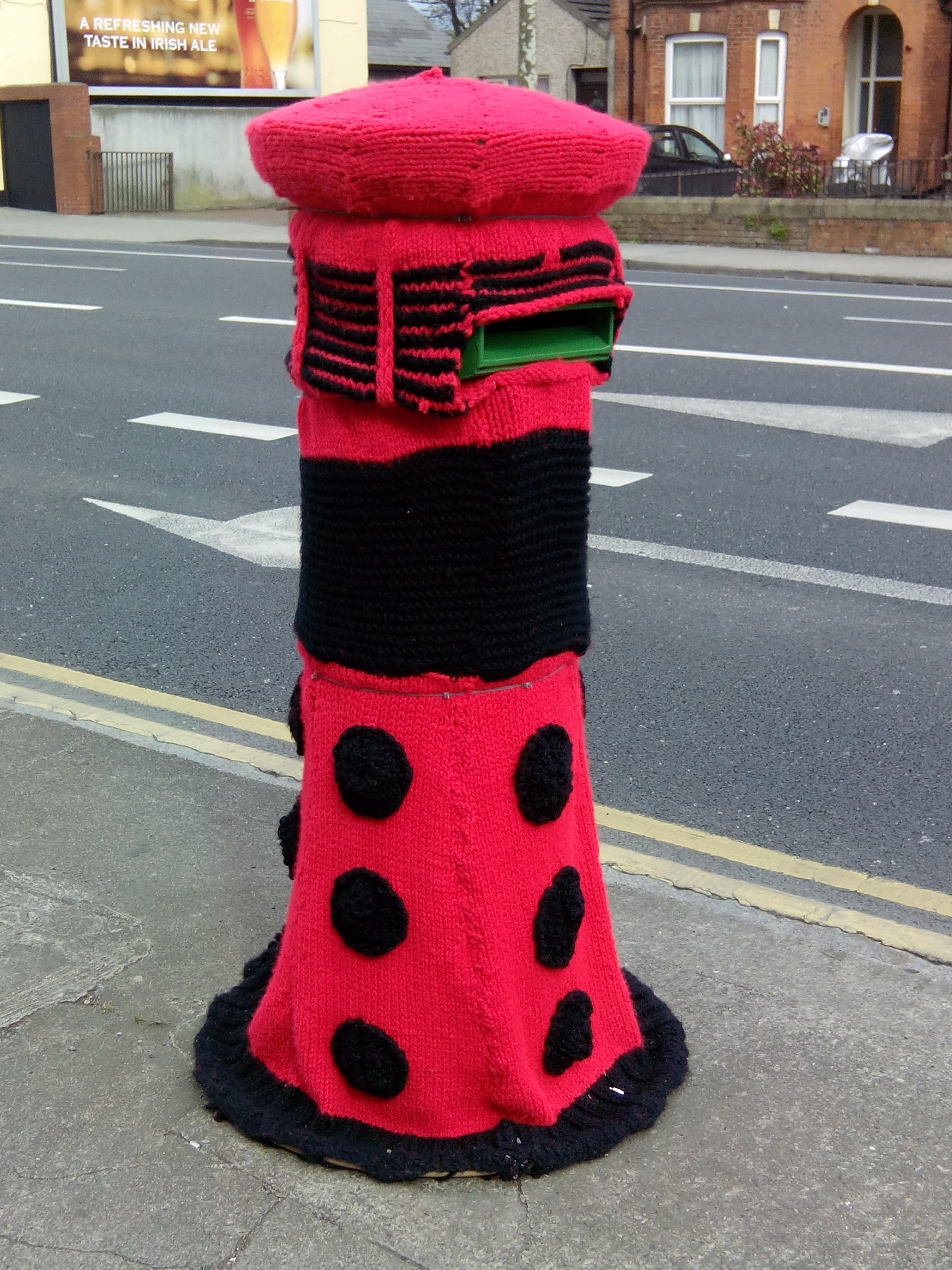 A pillar postbox yarn bombed as a Dalek, during Phizzfest 2016, in Phibsborough, Dublin.